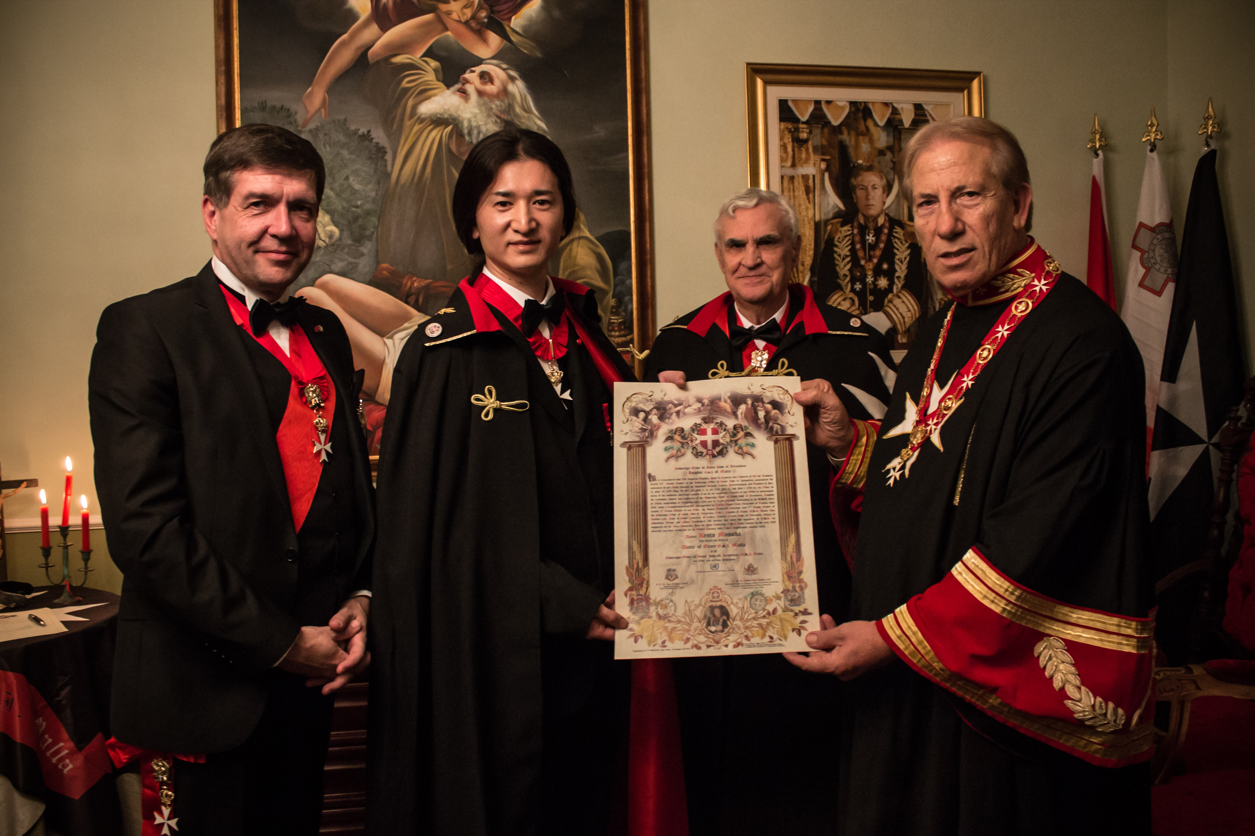 Masuda has received the distinguished title of “Knight” an accolade awarded by Don. Basilio Cali to The Sovereign Military Hospitaller Order of Saint John of Jerusalem of Rhodes and of Malta.